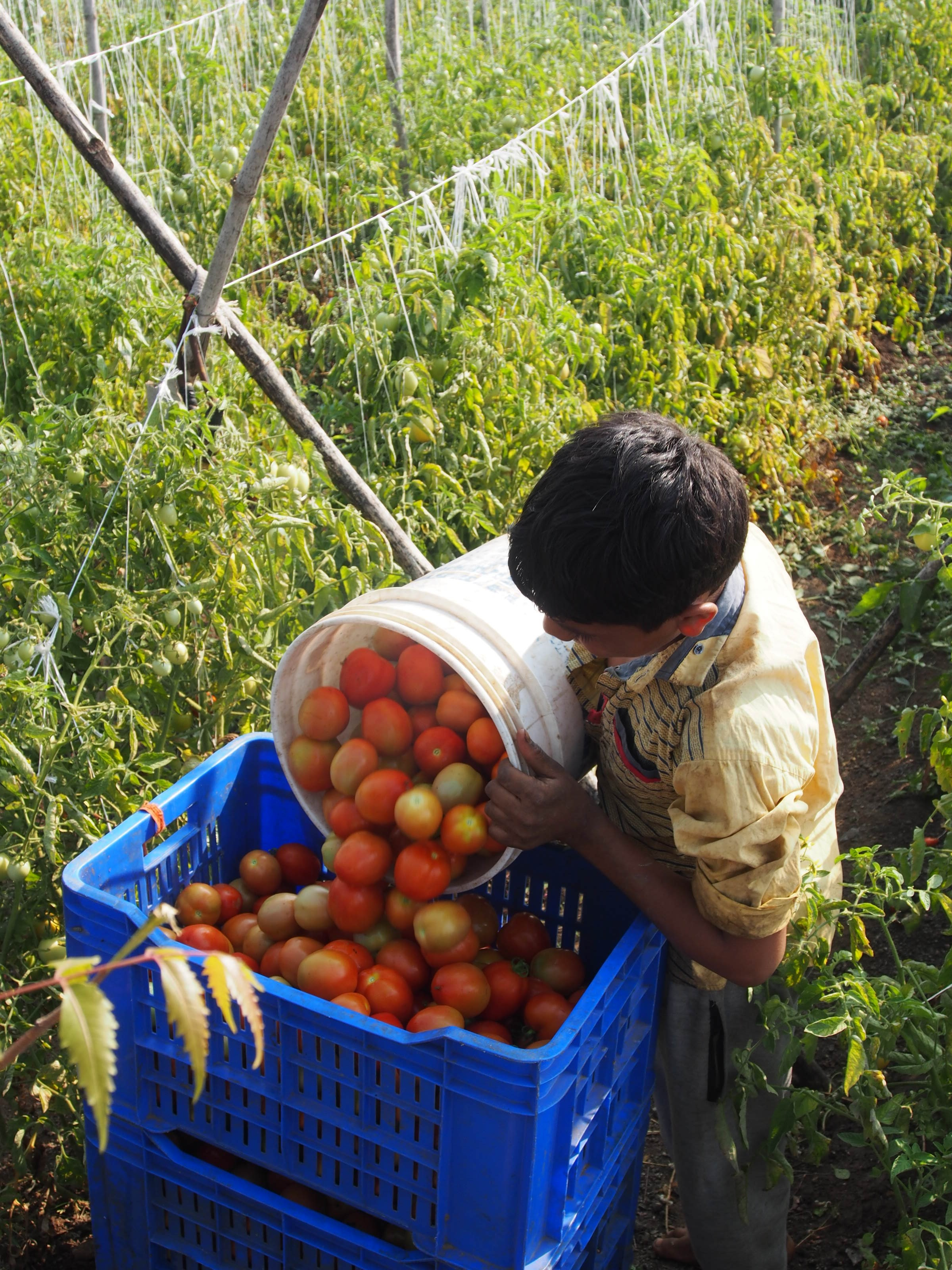 Collecting Tomatoes from field